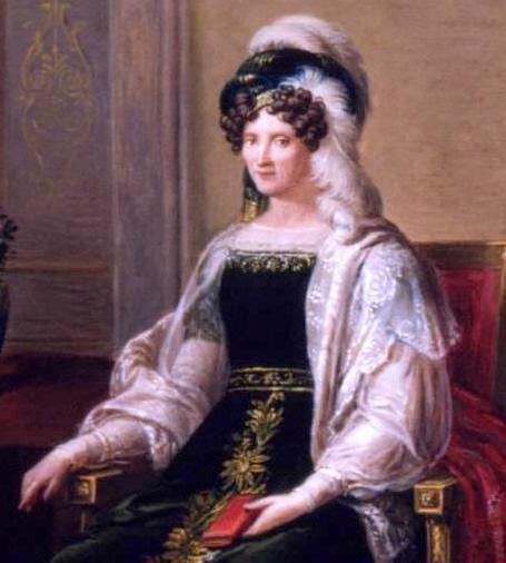 Maria Anna of Saxony, princess Altieri